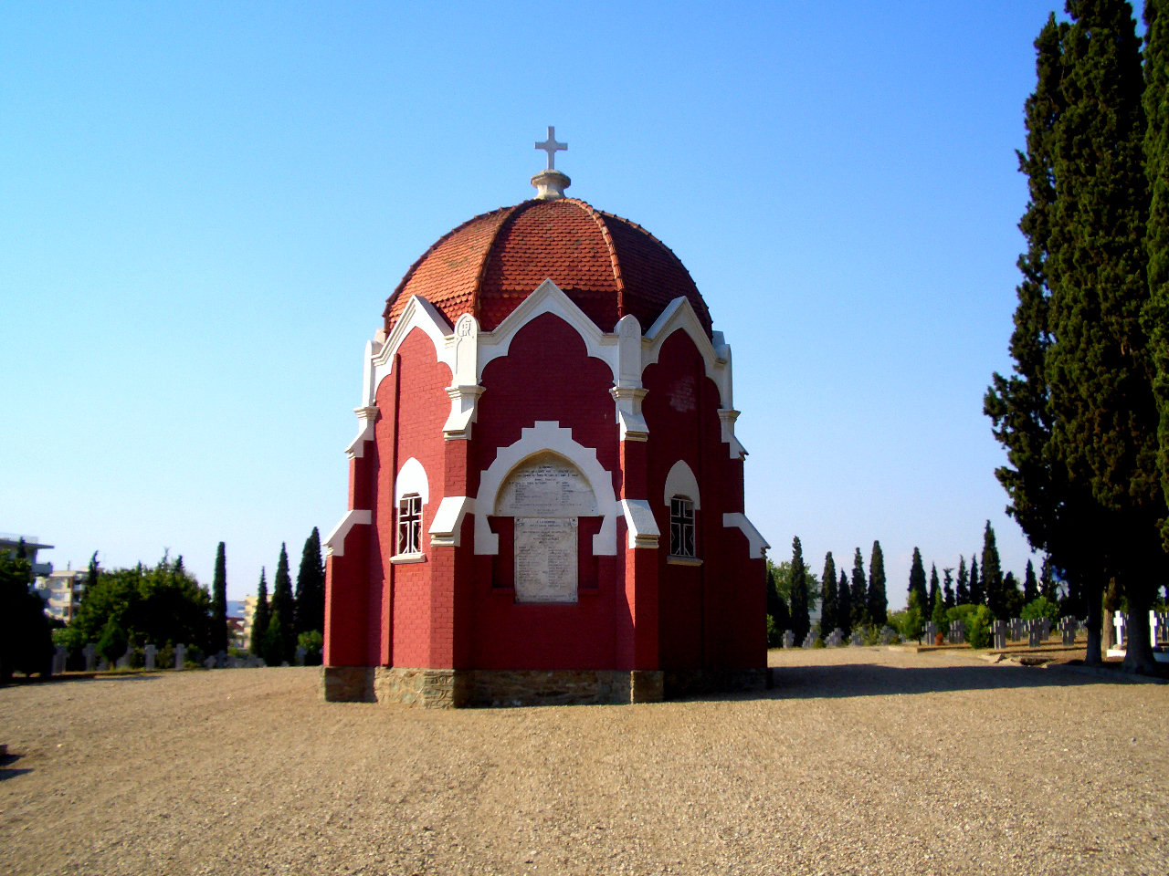 Allied Memorial Park of Zeitenlik in Salonica.